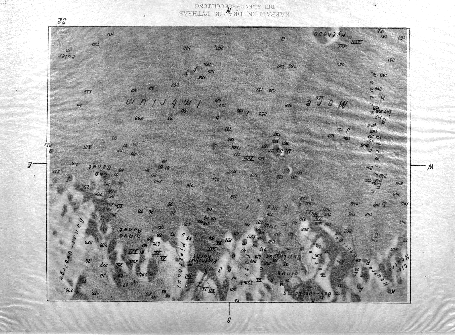 Map of the Moon from atlas by Johann Krieger and Rudolf König (1912). Montes Carpatus are seen in the bottom and Mare Imbrium on the top. The map was rotated to make north on the top.